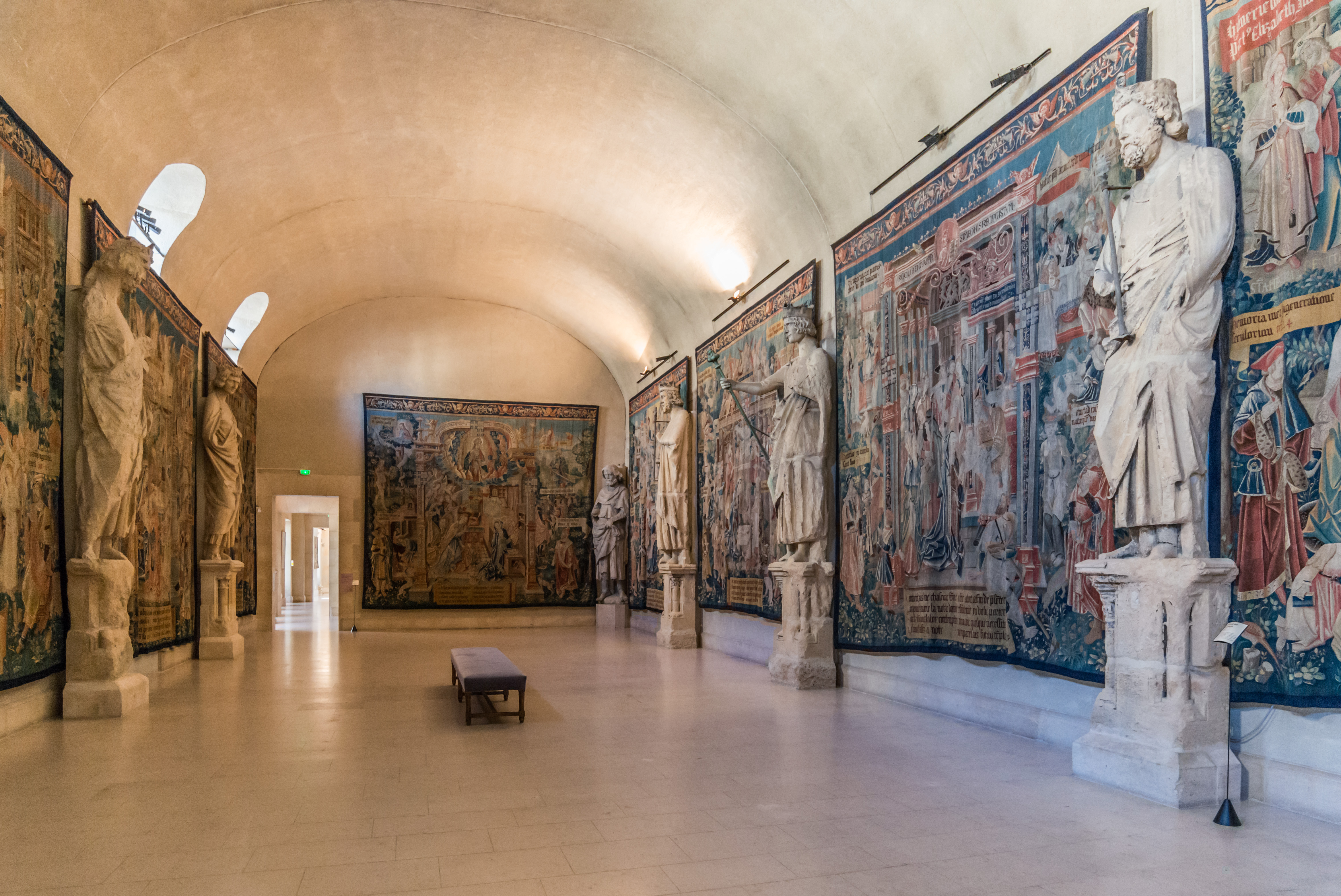 The salle du Couronnement de la Vierge (room of the crowning of the virgin), one of the rooms of the Palace of Tau, shows tapestry that illustrates the life of Mary.